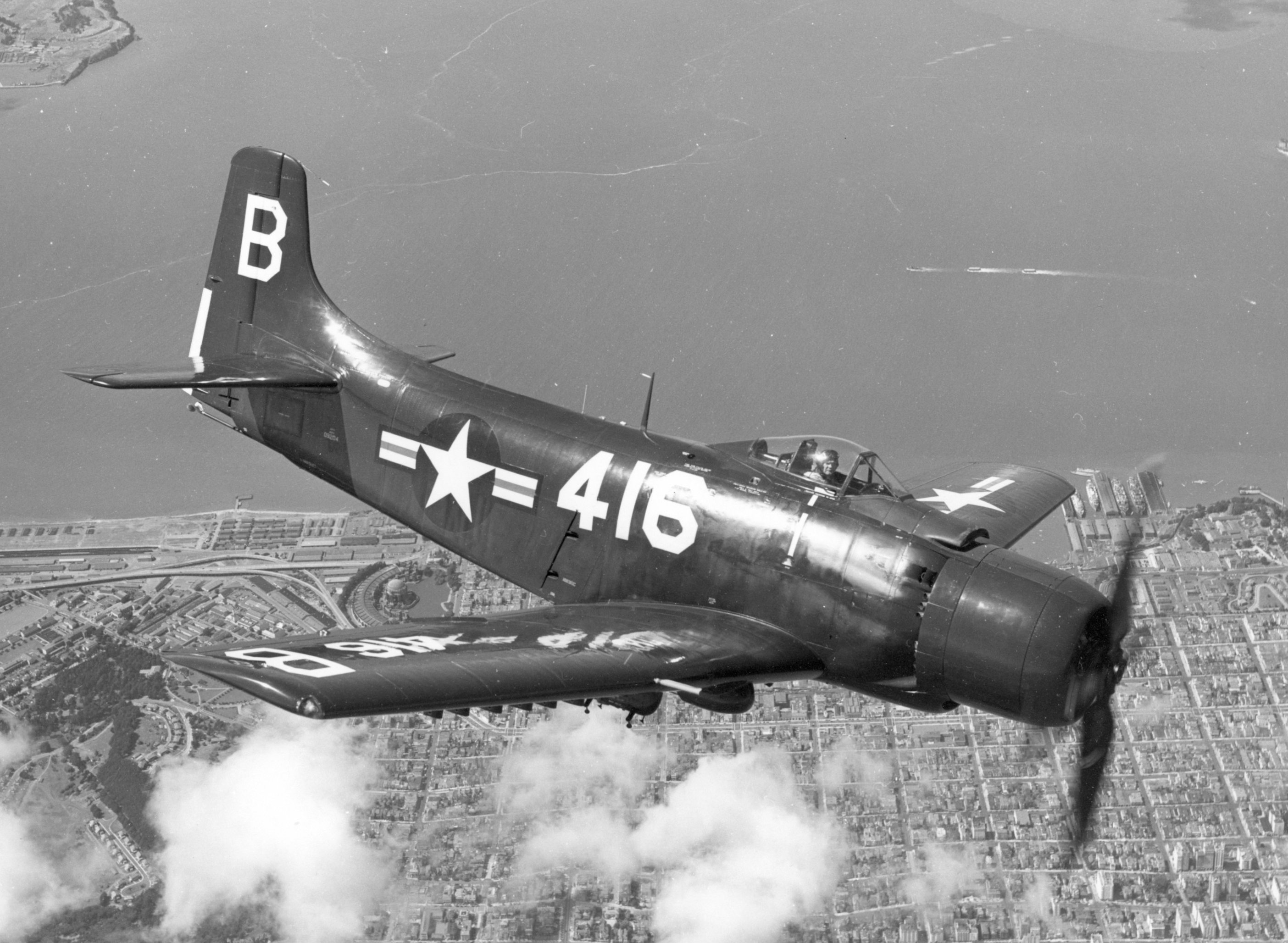 AD-1 over Marina SF 6-2-47